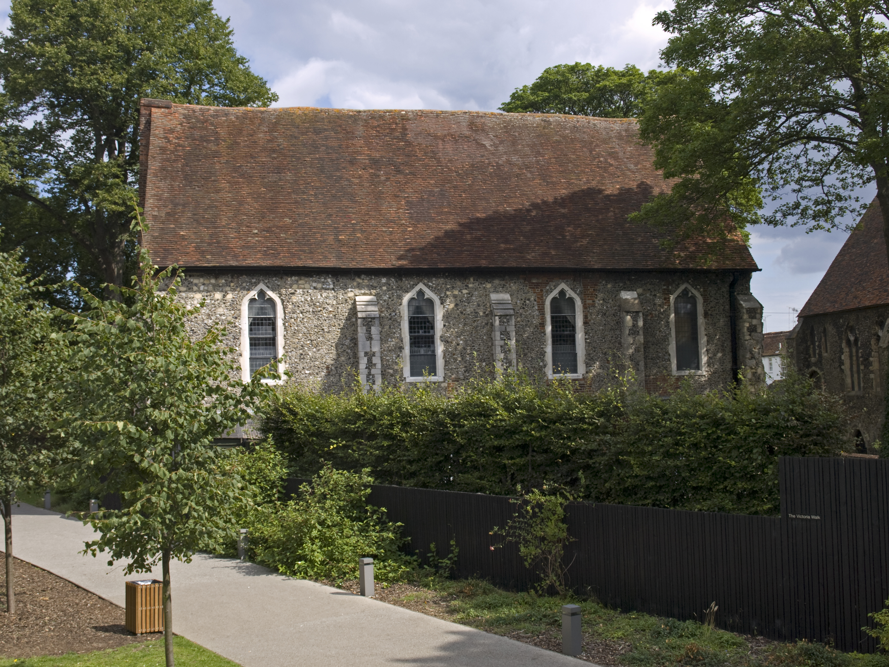 The former guesthouse of the Blackfriars monastery, Canterbury